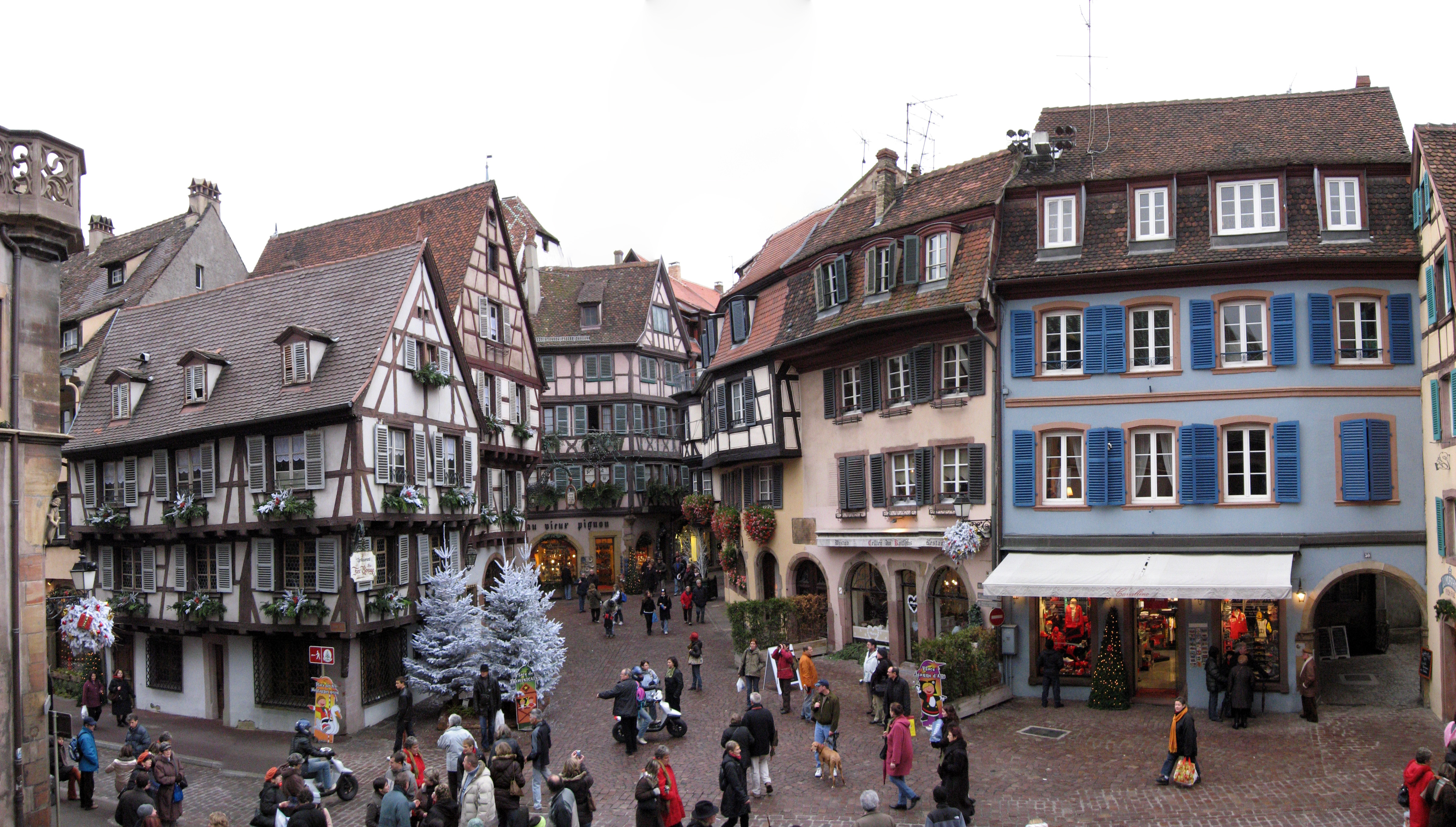 Old houses at the square next to the Koifhus in Colmar.